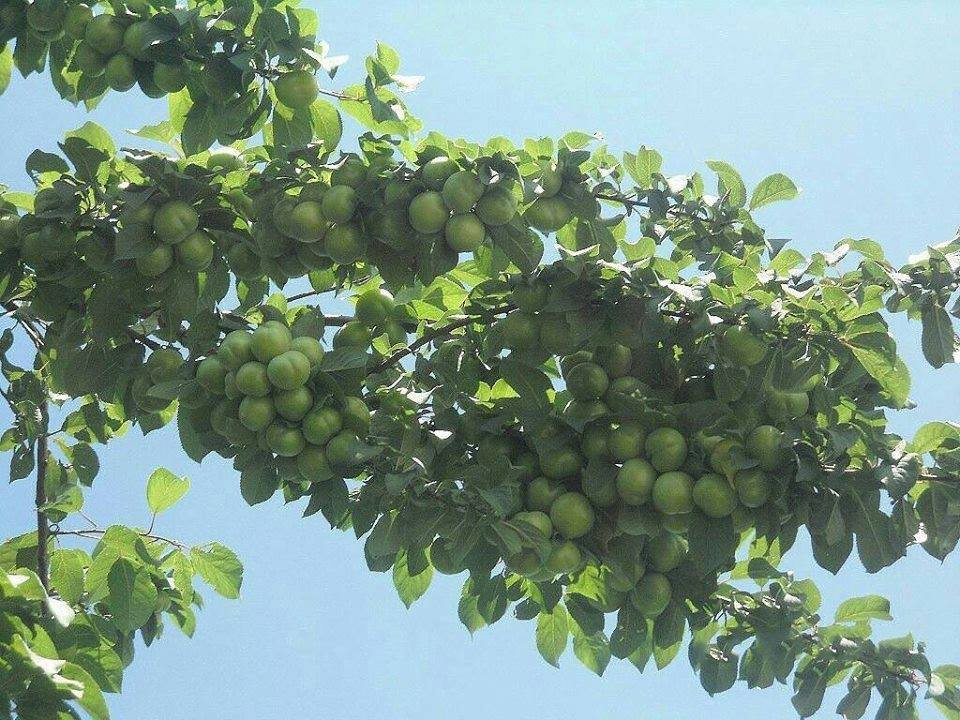 Prunus vachuschtii, branch with fruits